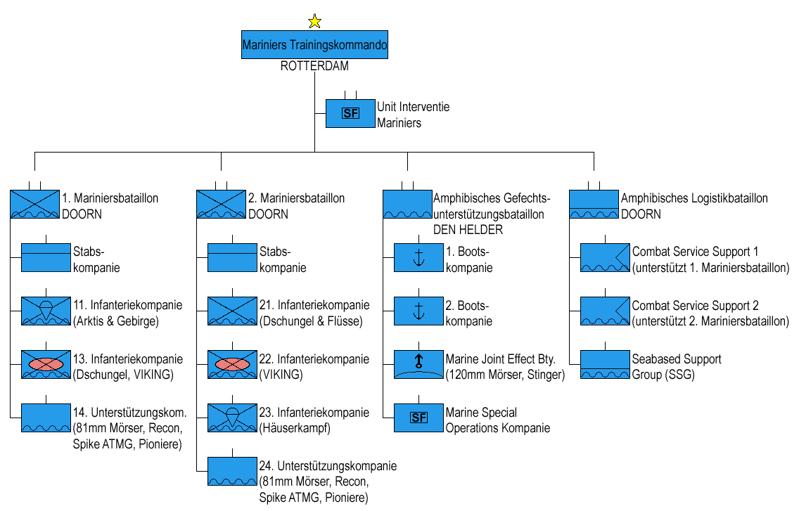 Structure of the Korps Mariniers - Marine Infantry; Netherlands Navy. (German version)